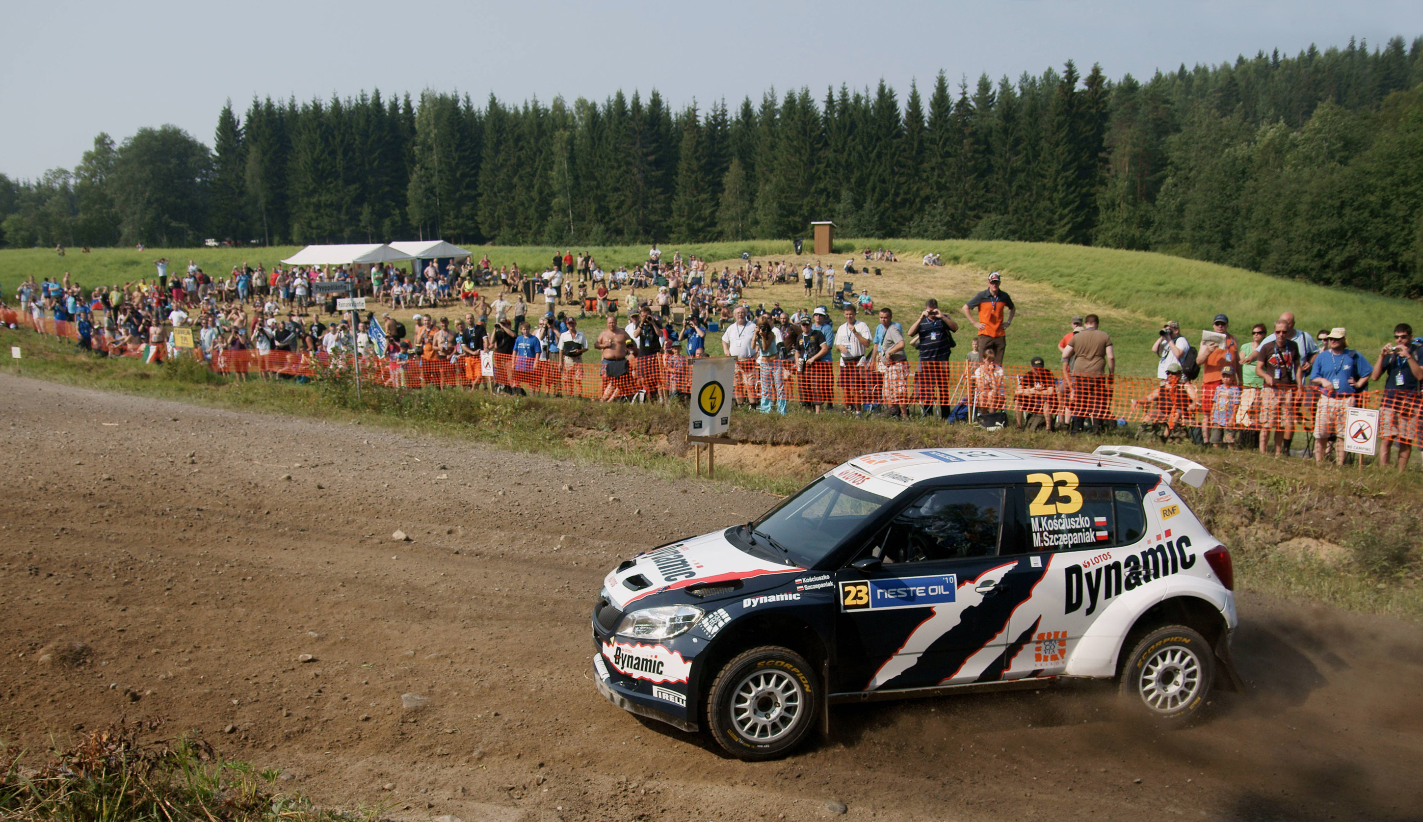 Michal Kosciuszko driving at Rannakylä shakedown in Muurame.